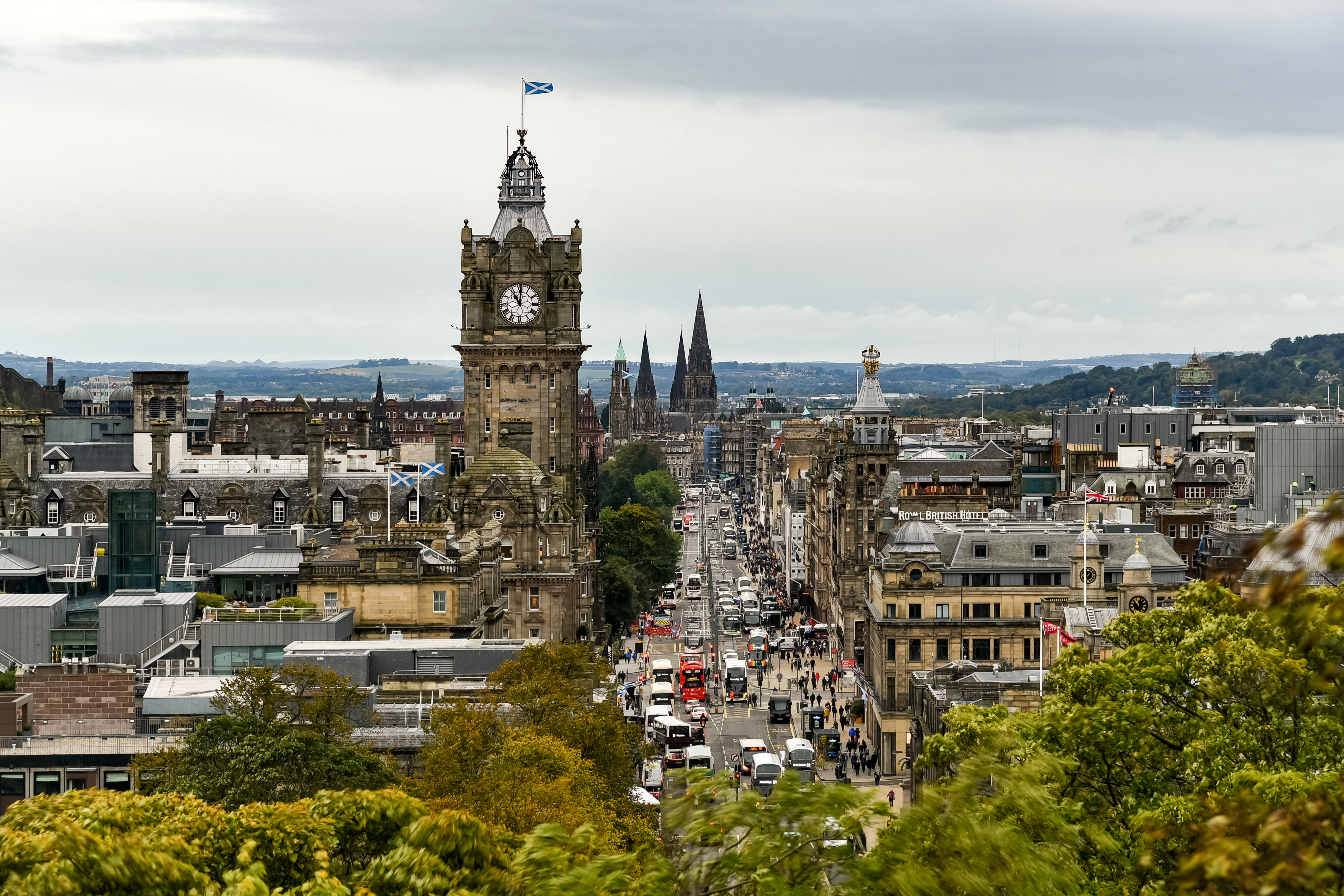 Edinburgh (Scotland, United Kingdom)